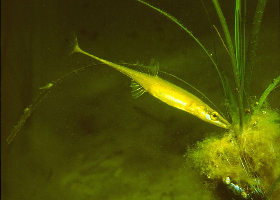 Sea stickleback, male at nest